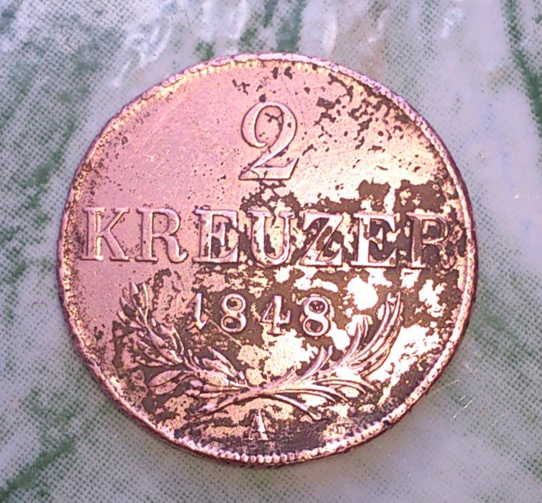 One side of a coin from 1848, Austria.